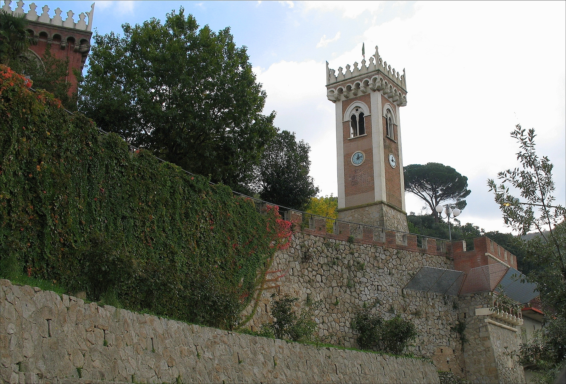 Tower